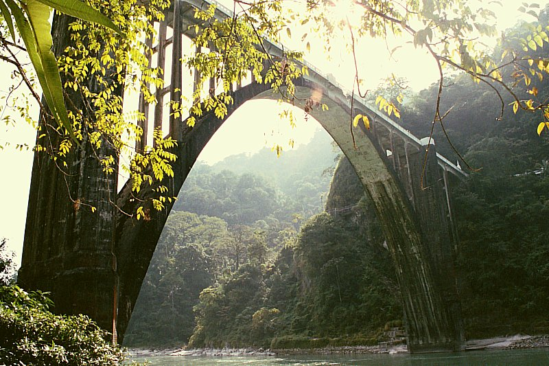 Coronation bridge at Sevoke (West Bengal) over Tista river.